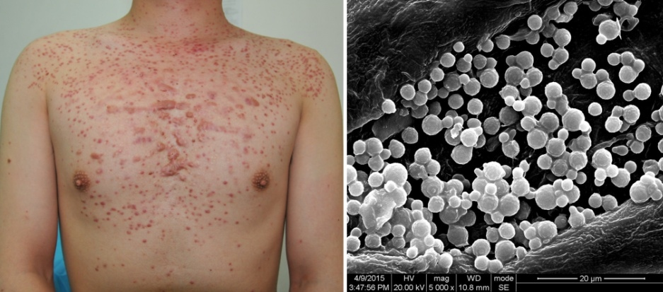 Left: A 25-year-old man with complains of slightly pruritic, monomorphic follicular papules, pustules, and secondary keloid on the upper trunk and neck. Right: SEM of the hair follicle from the upper trunk. These demonstrated a large number of globular or orbicular-ovate yeasts of budding daughter cell, with collar structure around the budding.